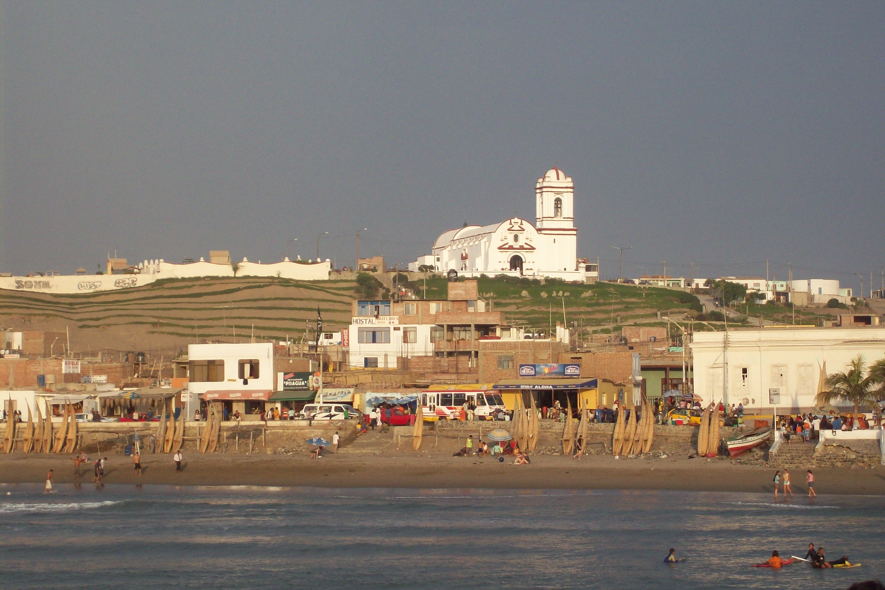 View of Huanchaco, Trujillo (Perú)